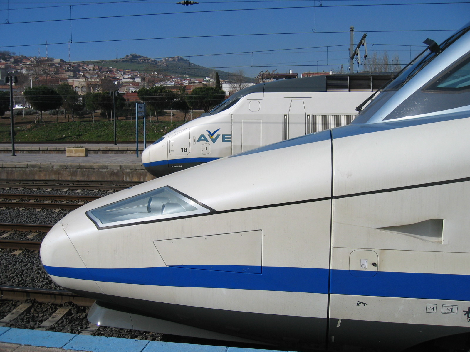 Noses of AVE S-101 and S-102 in Puertollano